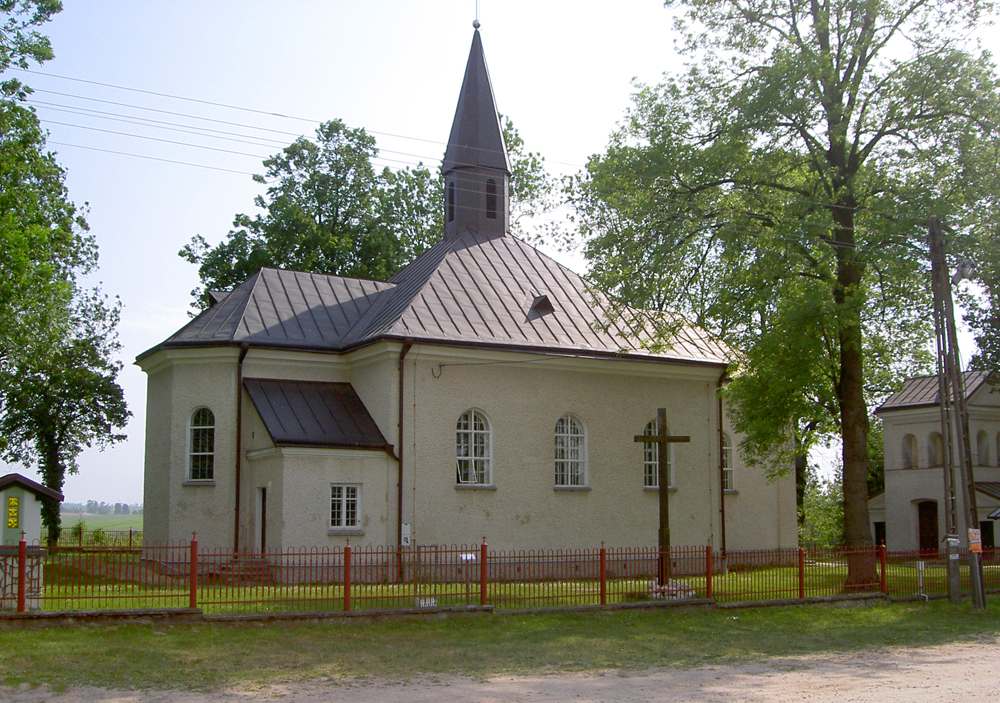 Exaltation of the Holy Cross church in Księżpol, Poland